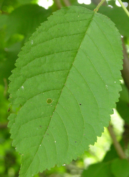 Leaf of a Wild Cherry (Prunus avium). Photo by Derek Ramsey (Ram-Man) Species identification performed by the Pennsylvania Department of Conservation and Natural Resources. Photo taken at the Ridley Creek State Park.